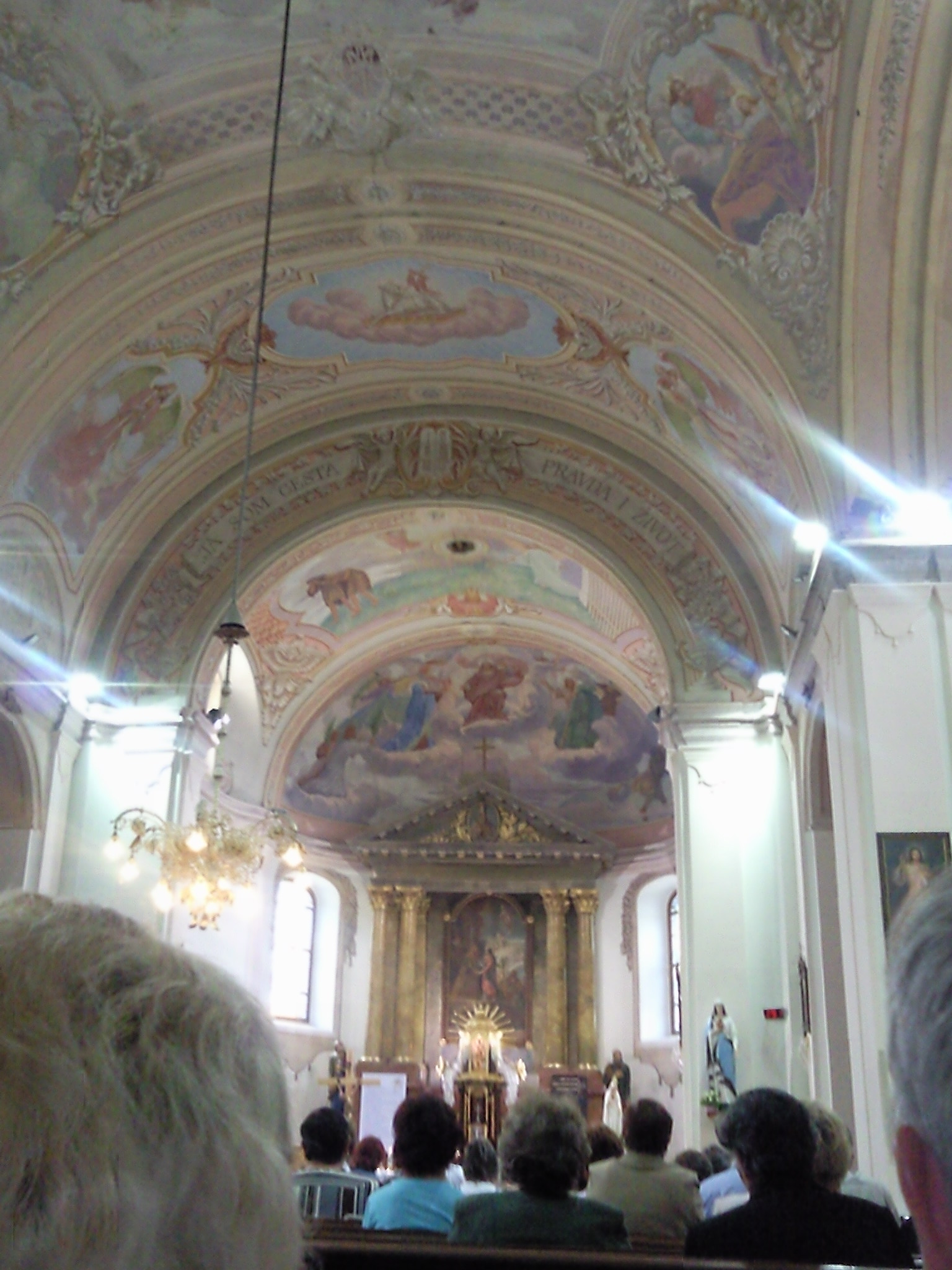 Church in Visnove